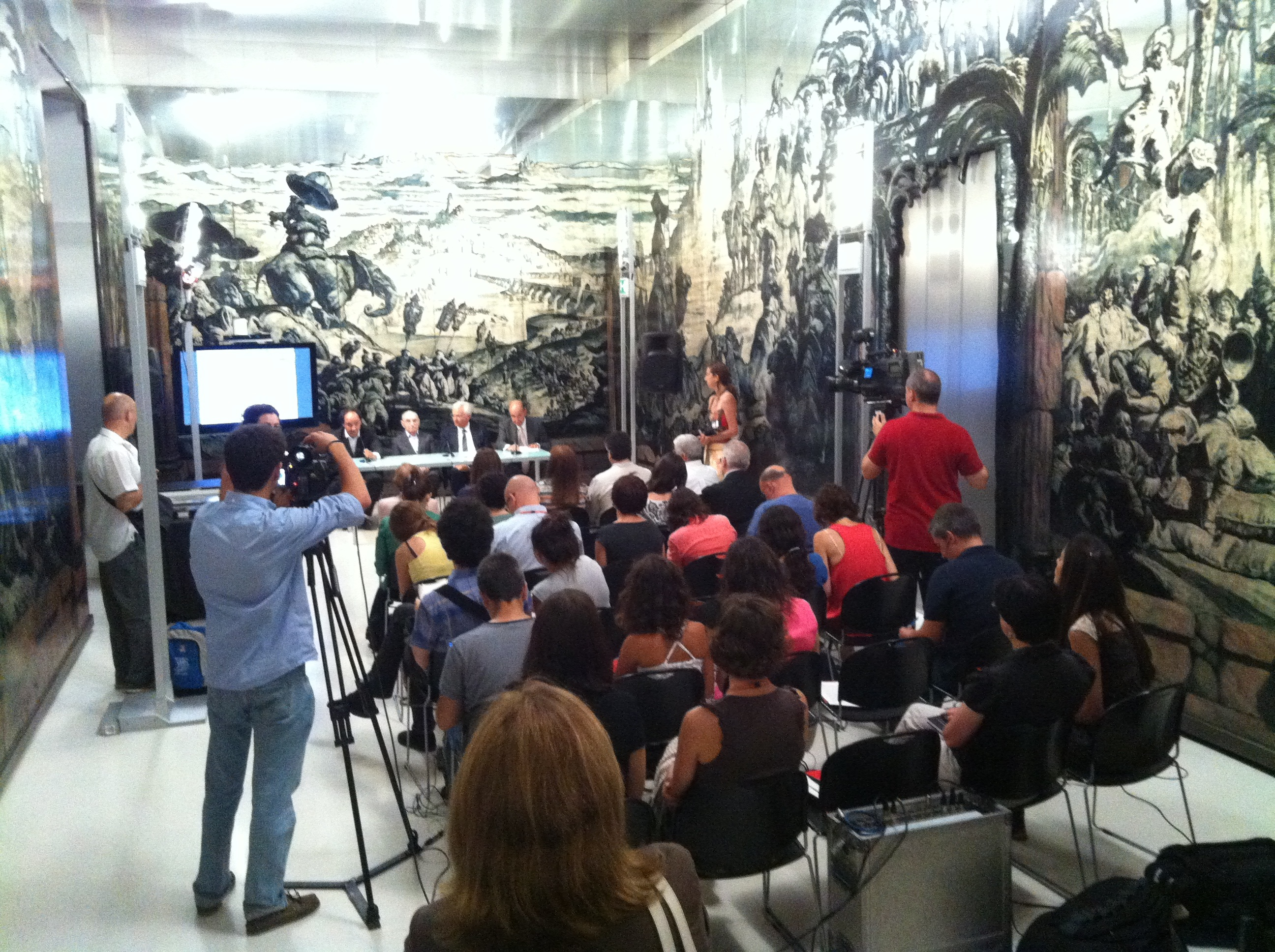 Joan Colom i Altemir, Catalan photographer, gave his collection to MNAC Barcelona museum.